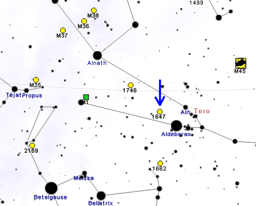 map of NGC 1647